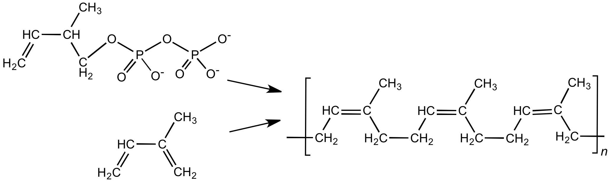 contrasting the precursors to Natural rubber (Isopentenyl pyrophosphate, top left) and Synthetic rubber (Isoprene, lower left)